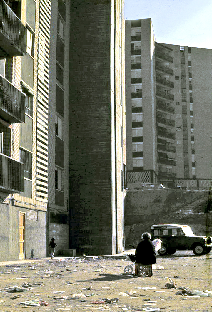 Old woman and rubbish at "Torres Blancas". Moralalaz neighborhood. Madrid, Spain